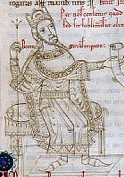 Berengar I, Holy Roman Emperor.